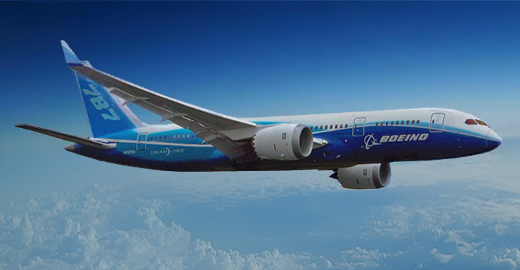 Artist impression of Boeing 787-3 Dreamliner.